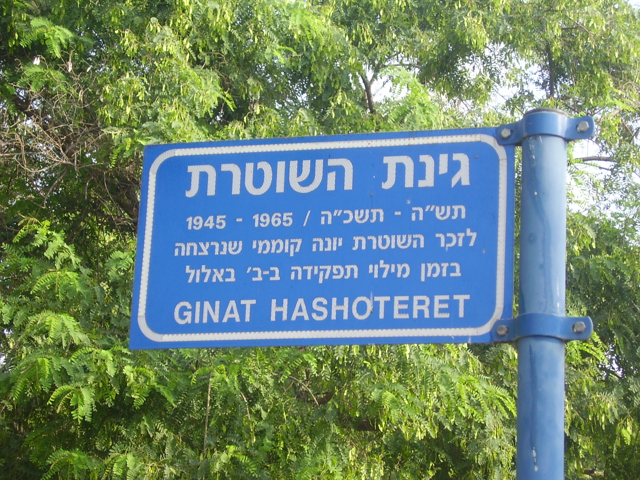 Policewoman Yona Kumami memorial garden in Tel Aviv